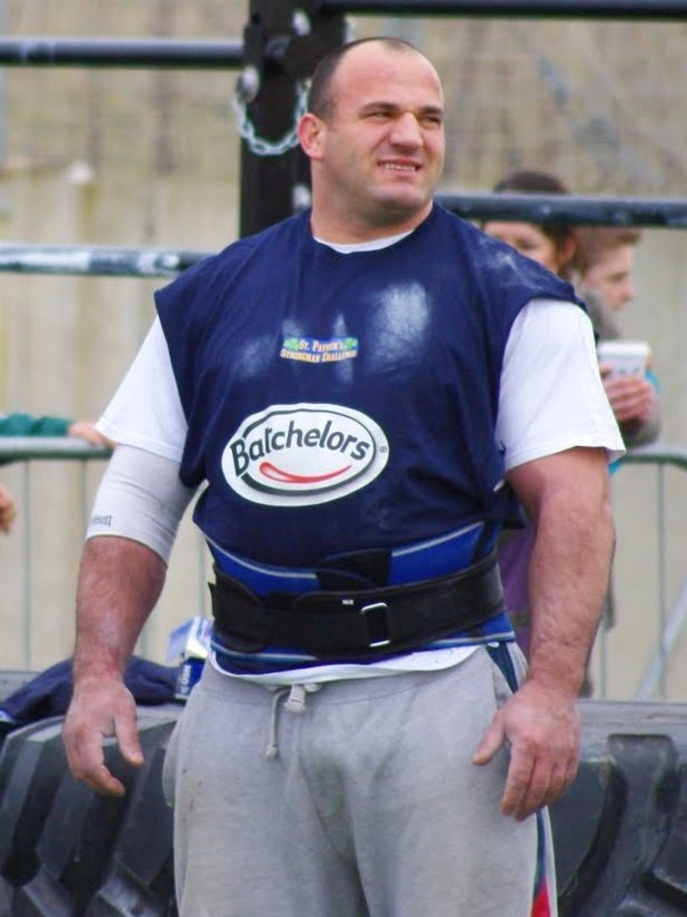 Jimmy Marku - a strength athlete from England.